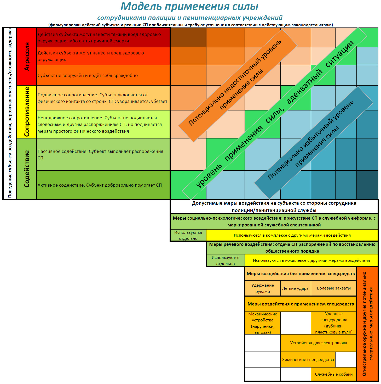 Russian-language model of the use of force continuum utilized by law enforcement agencies